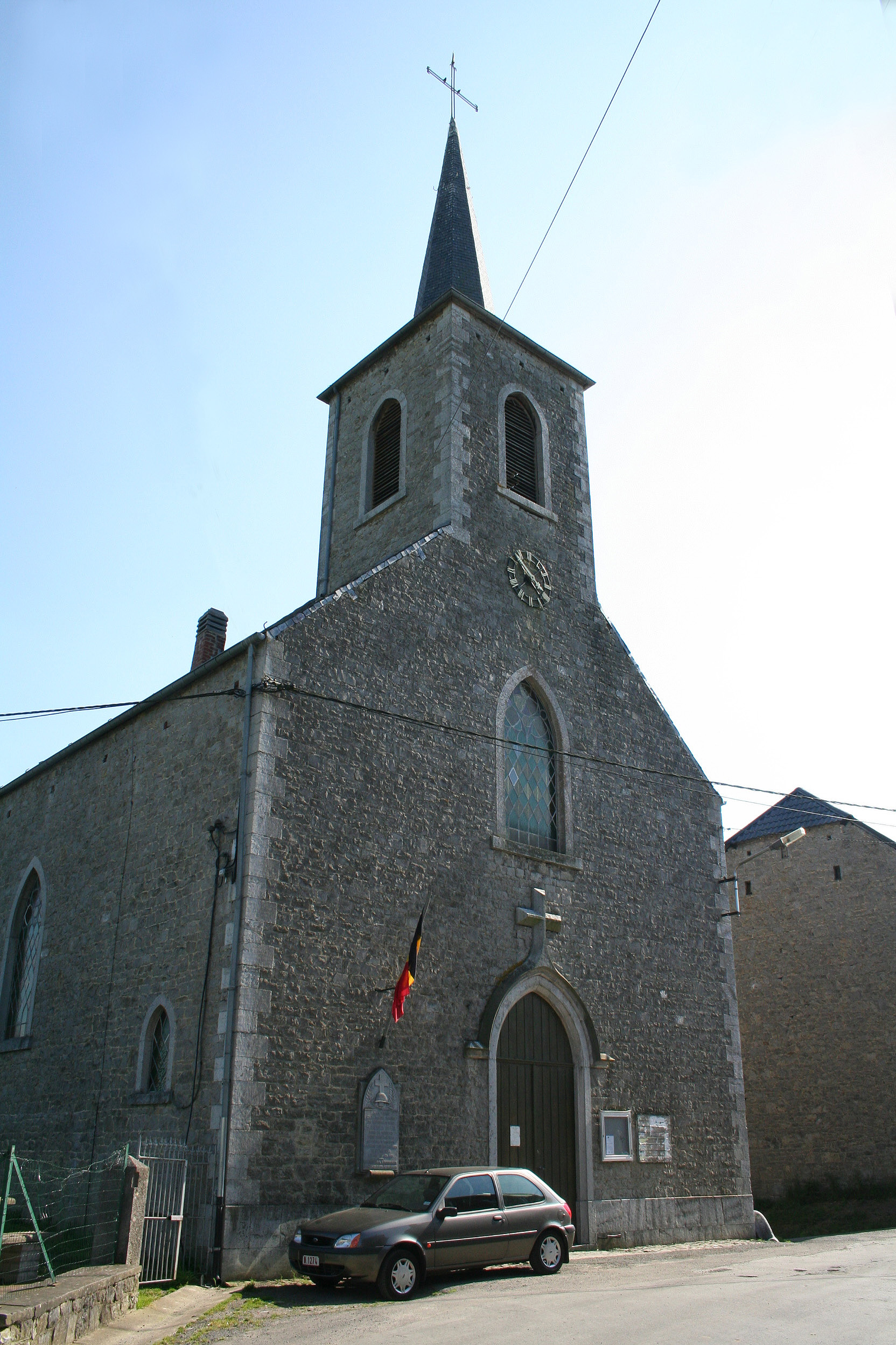 Ave (Belgium), the St Michel church.